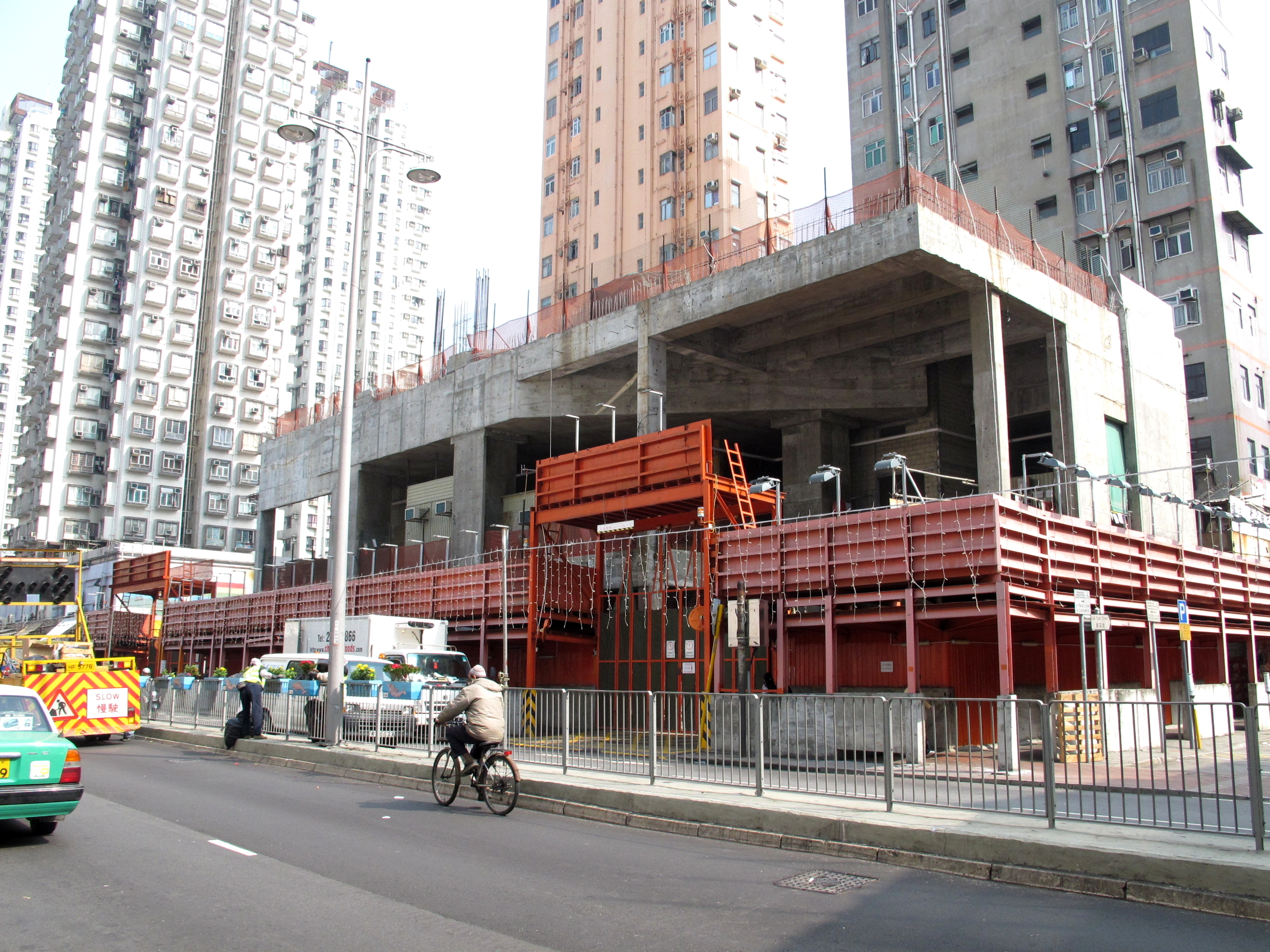 The Parkville on hold site